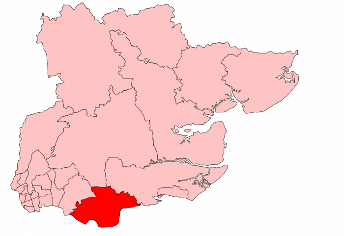 A map of Thurrock constituency within Essex, as it existed from 1945 to 1950.